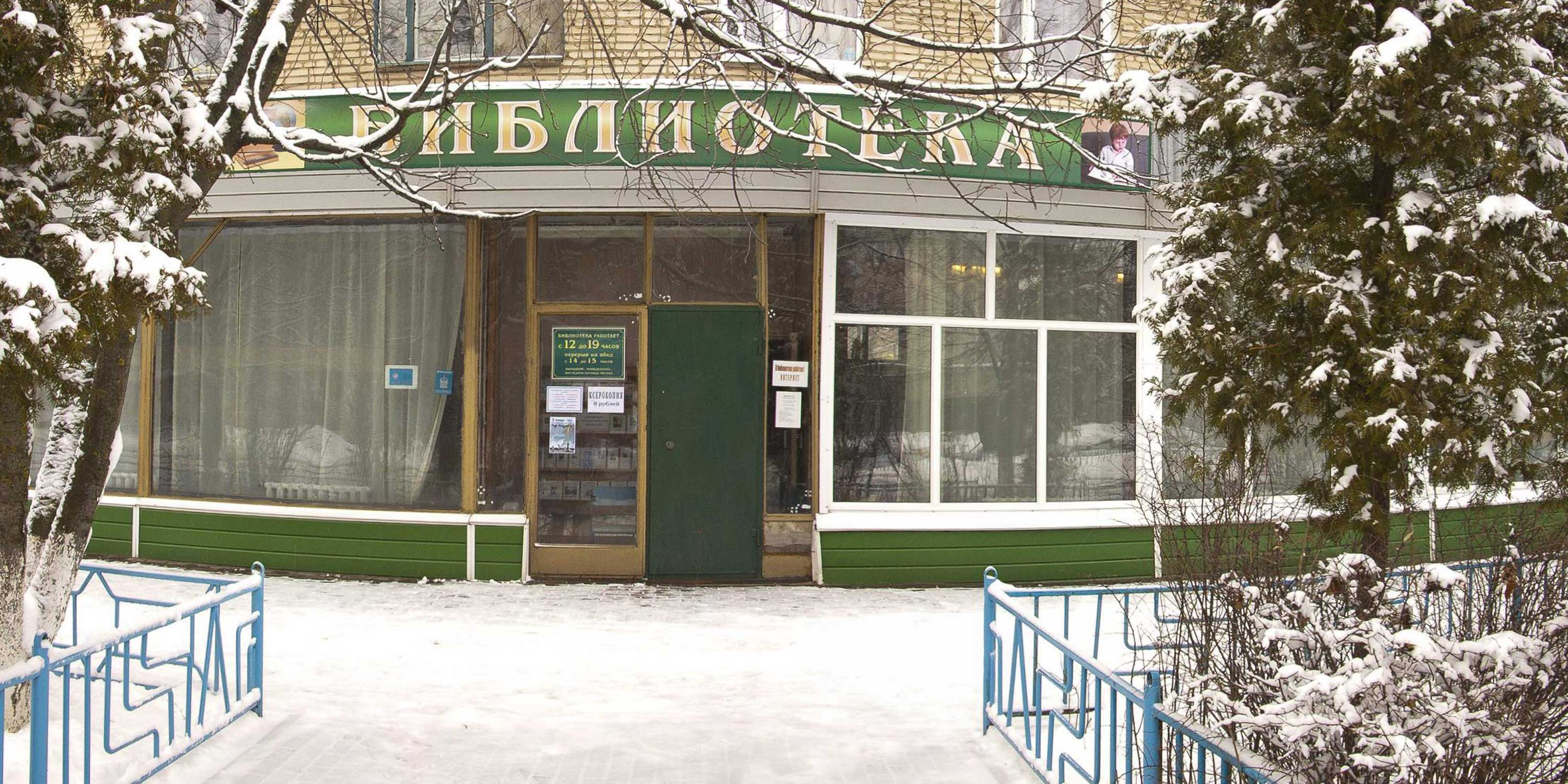 District Library, Lukhovitsy